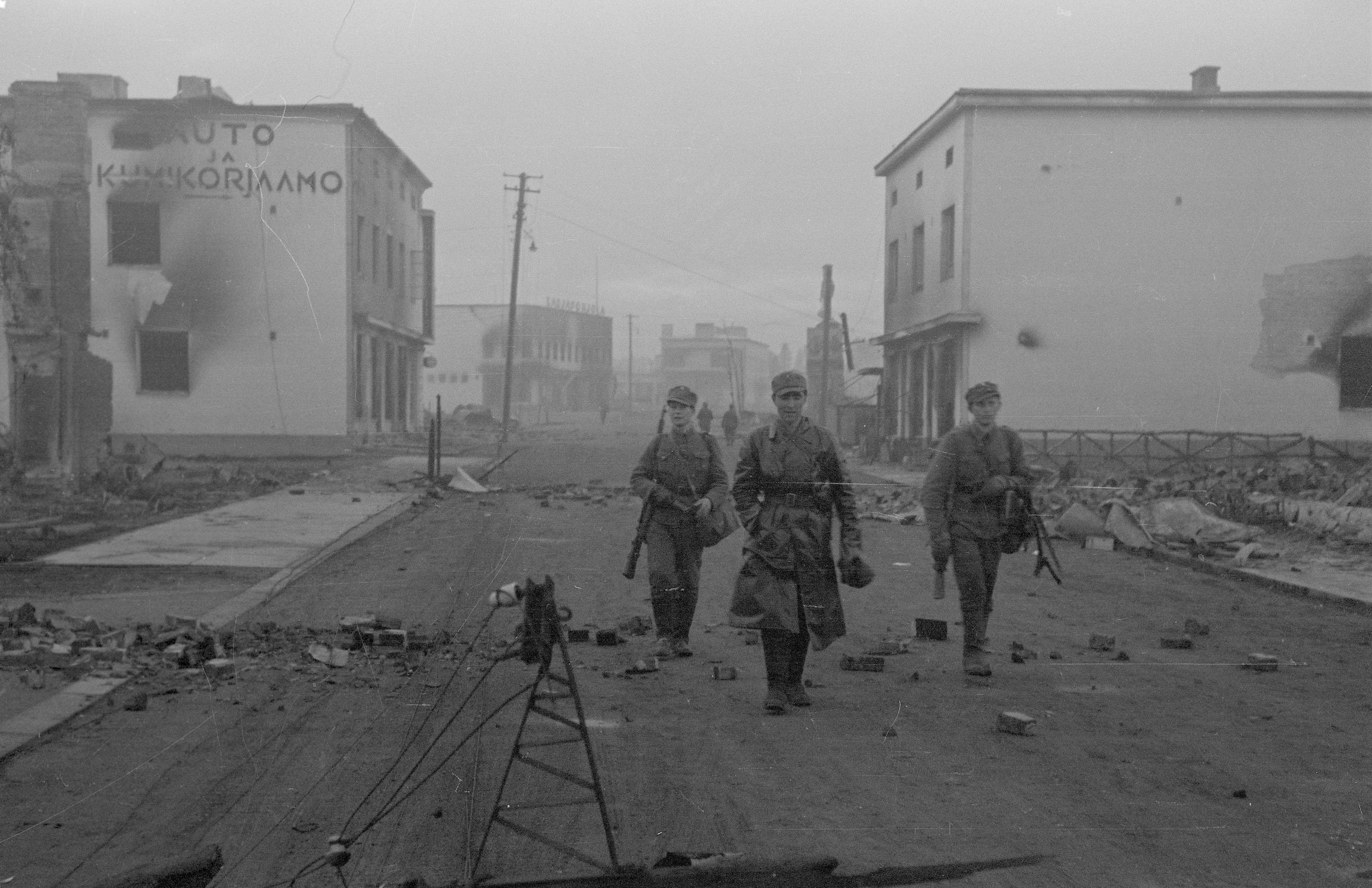 Finnish troops arriving into the scorched town of Rovaniemi during the Lapland War.